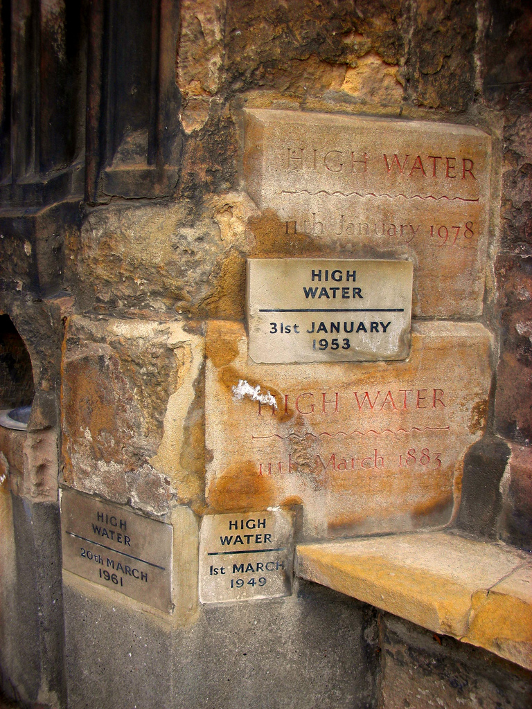 St Margarets Church King's Lynn Great northsea flood 1953